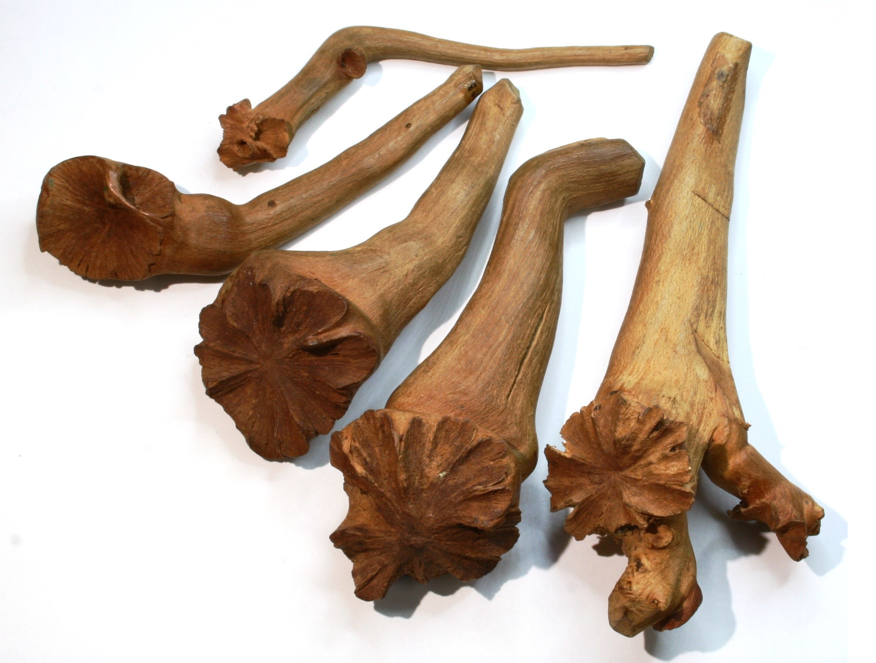 Five wood roses (attachment points of the New Zealand parasitic plant Dactylanthus taylorii on the root of its host tree)